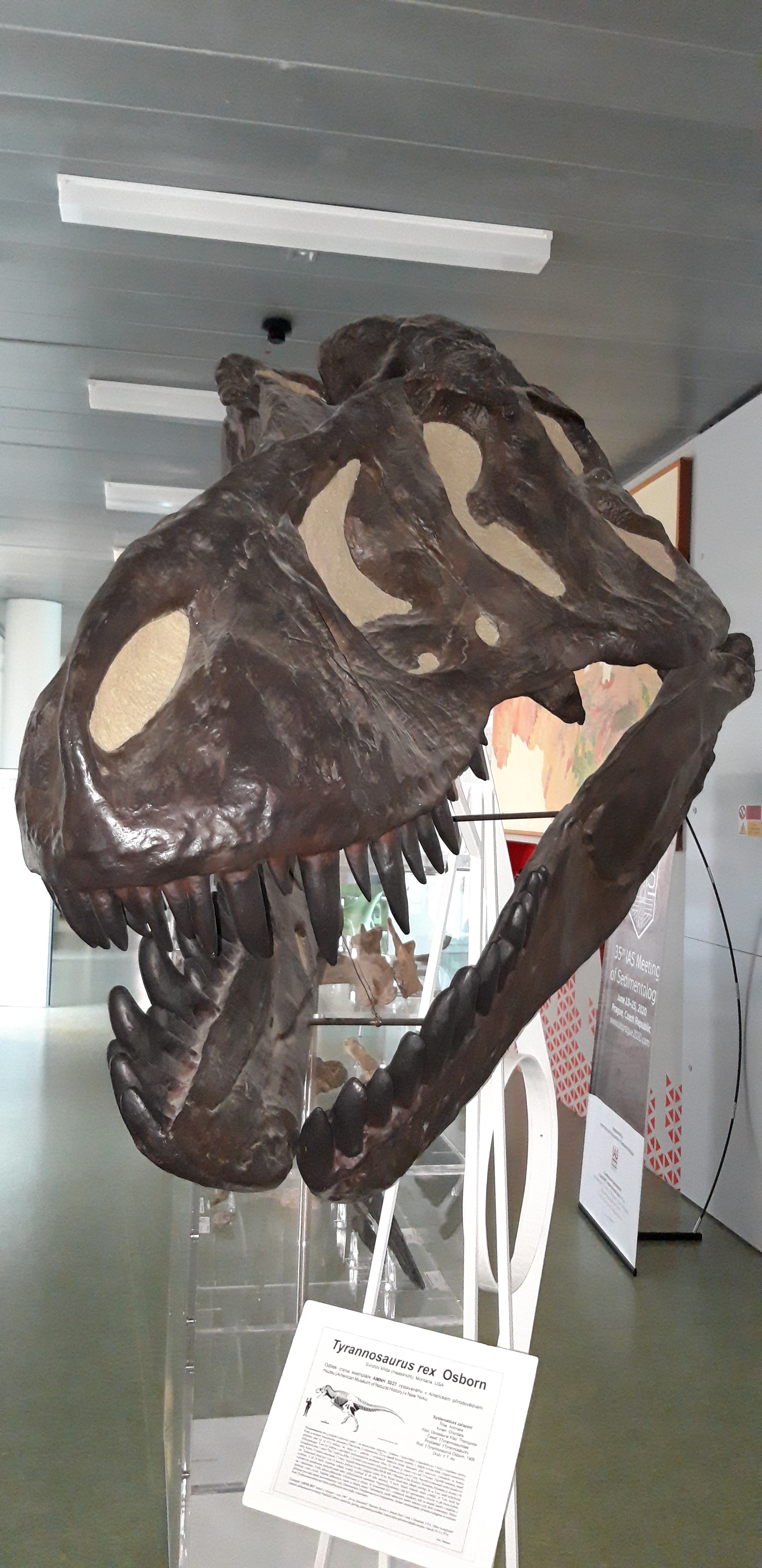 Tyrannosaurus rex skull (AMNH 5027) replica in the Department of Geology, Faculty of Science, Palacký University Olomouc (Czech Republic).